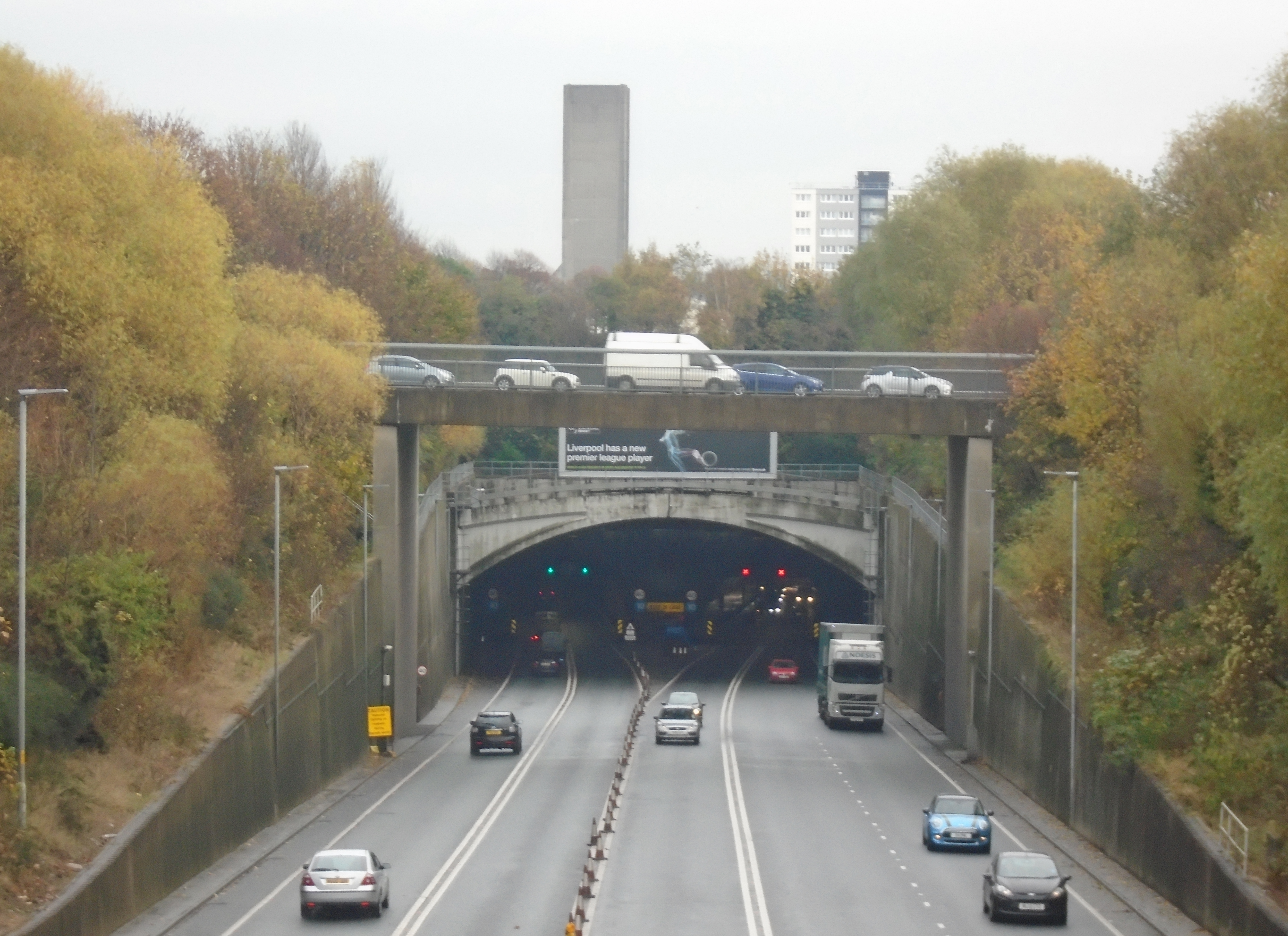 With Wheatland Lane bridge in front.